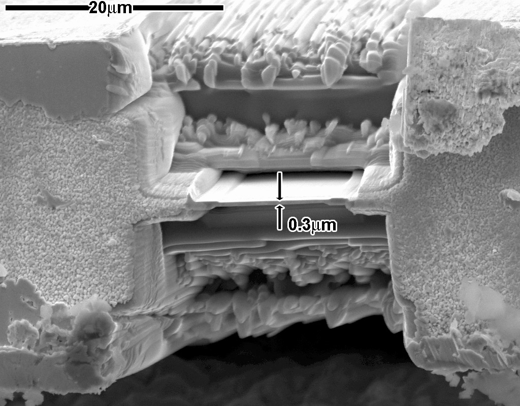 SEM micrograph of a wide-bandgap semiconductor prepared for TEM by focused-ion-beam milling.